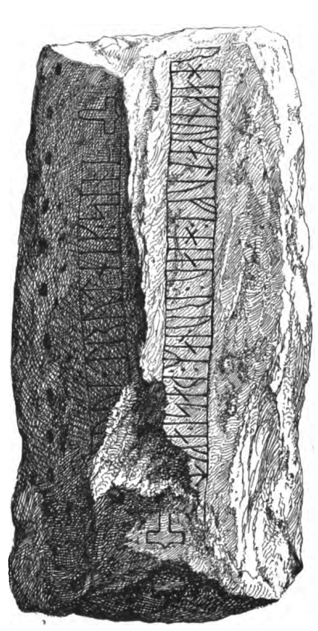 The runestone DR 26 from Læborg. George Stephens lists this runestone as one of those bearing the hammer of Thor. The inscription reads §A rhafnukatufi ÷ hiau ÷ runaR : þasi aft §B þurui ÷ trutnik : sina. In English "§A Tófi, of Hrafn's lineage, cut these runes in memory of §B Þyrvé, his lady."